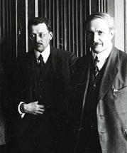 Karl Henrik Wiik and Yrjö Sirola.